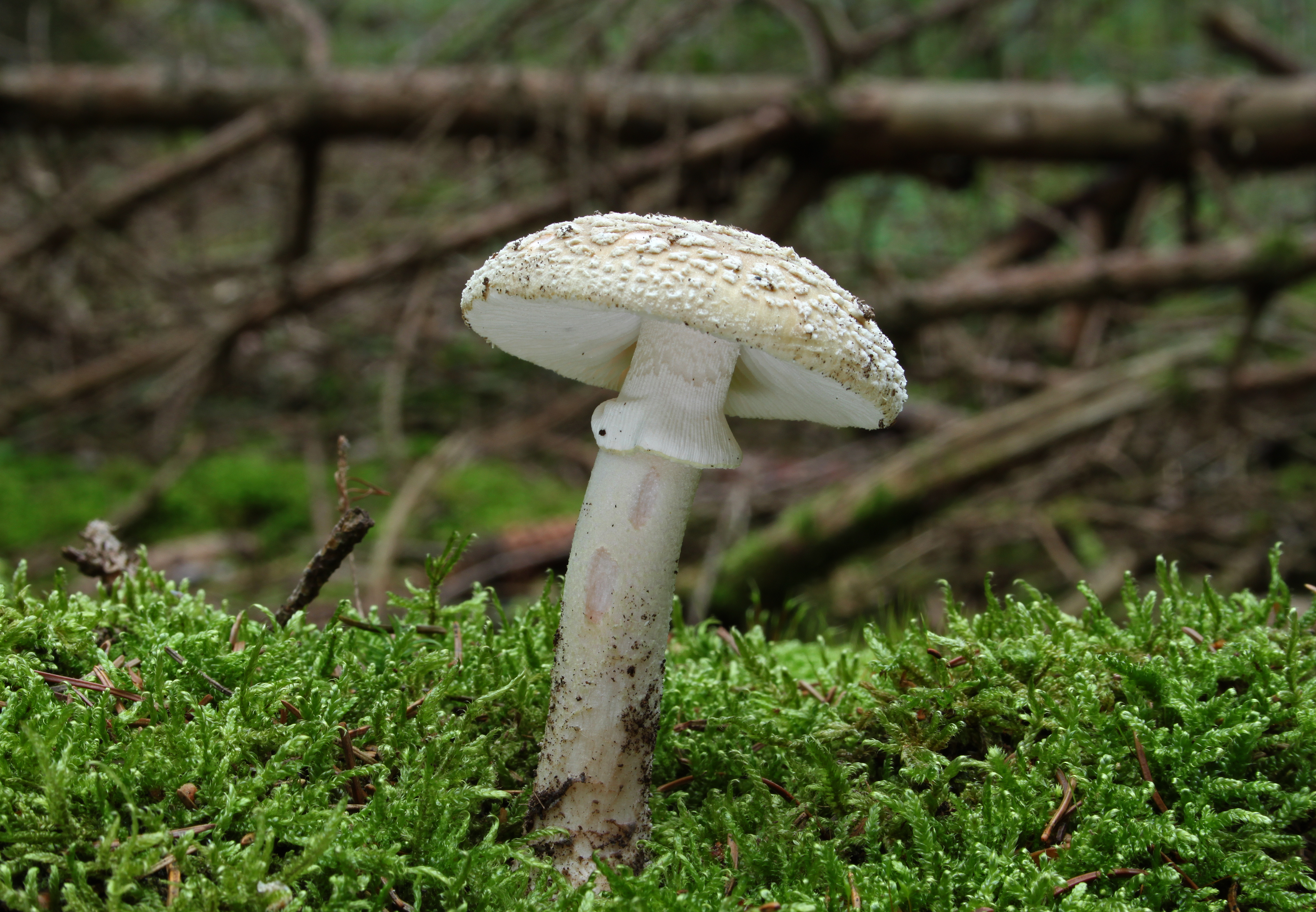 Grey Spotted Amanita Amanita spissa, Family: Amanitaceae, Location: Germany, Ulm, Eggingen